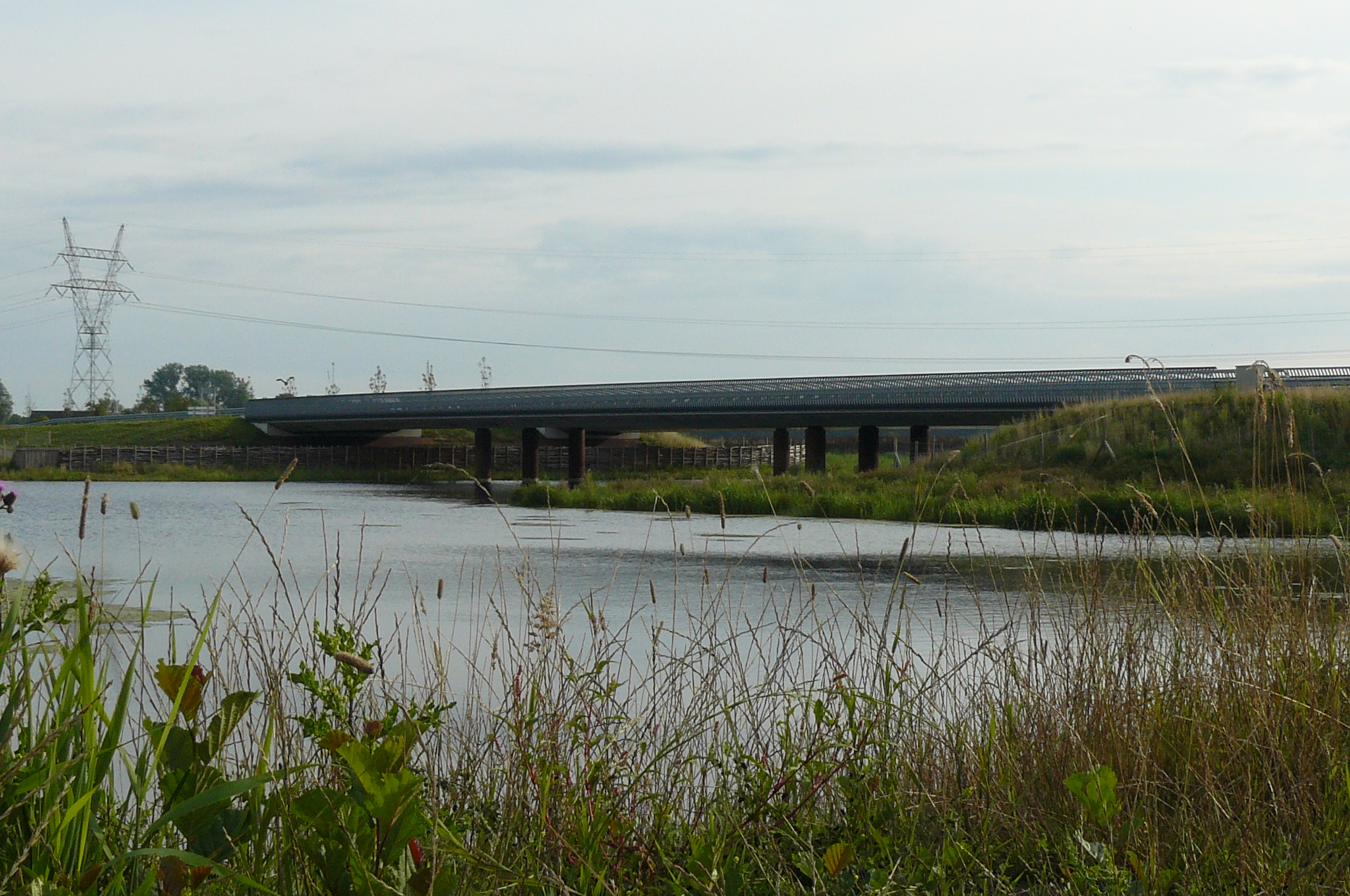 Wildlife passage near Ankeveen (the Netherlands).